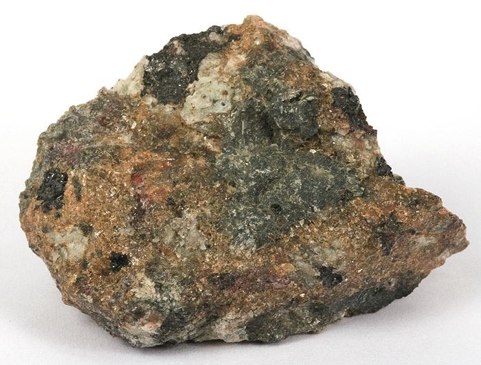 Nelenite Locality: Trotter Mine (Lehigh Mine), Franklin, Franklin Mining District, Sussex County, New Jersey, USA (Locality at ) Size: 4.0 x 2.8 x 1.7 cm. Nelenite is a very rare silicate found in only two localities worldwide, both in the United States and this specimen is from the Type Locality - the Trotter Mine at Franklin, New Jersey. Brown nelenite is richly dispersed on both sides of the matrix, which includes metallic, black franklinite. Ex. George Elling Collection, a noted Franklin/Sterling Hill collector.